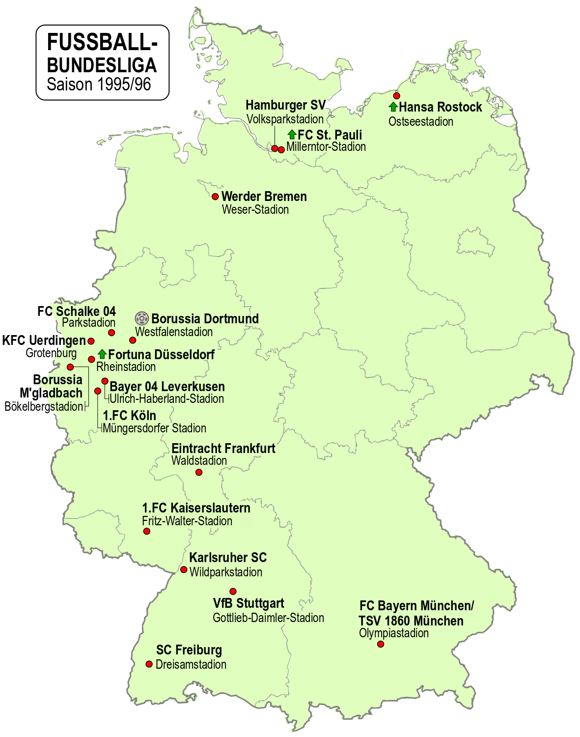 Karte der Vereine der Fussball-Bundesliga-Saison 1995/96